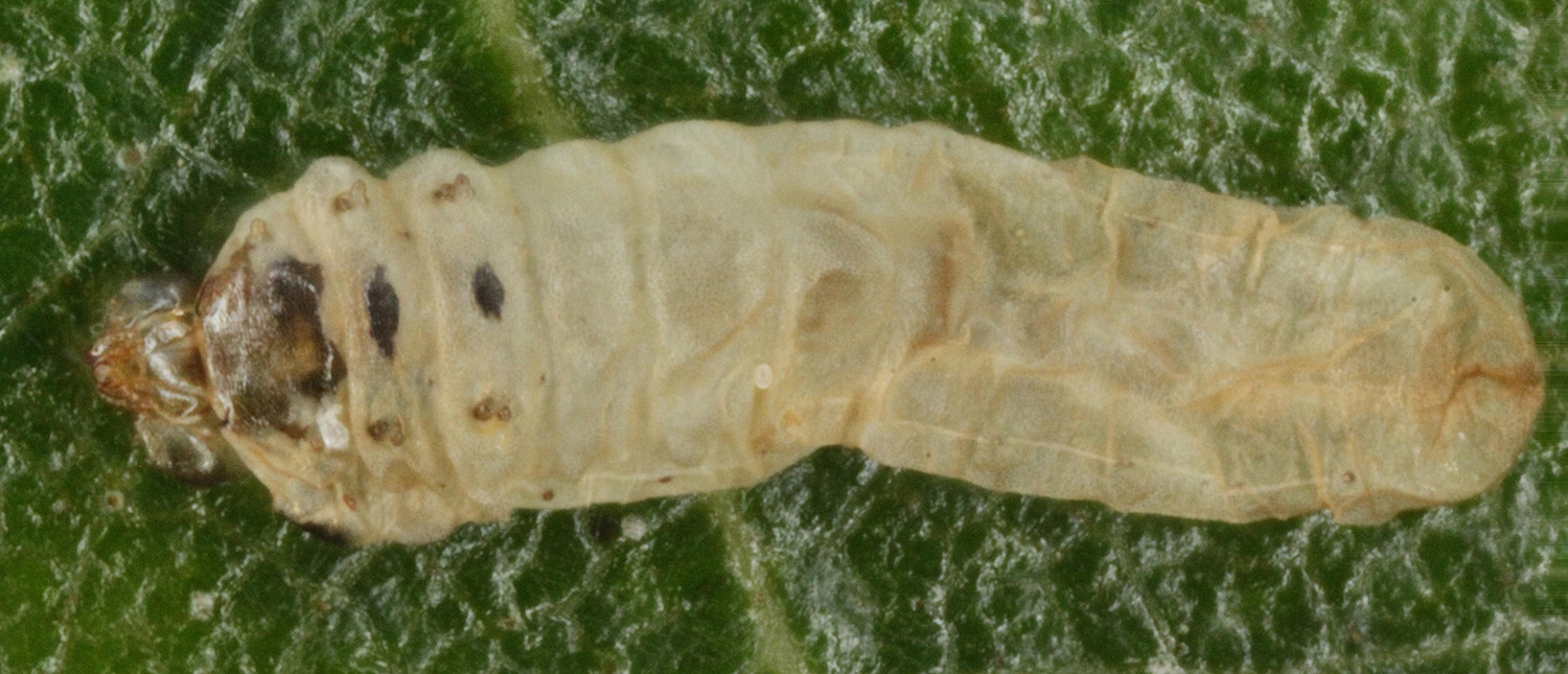 Profenusa thomsoni, Arthog Bog, North Wales, Sept 2014